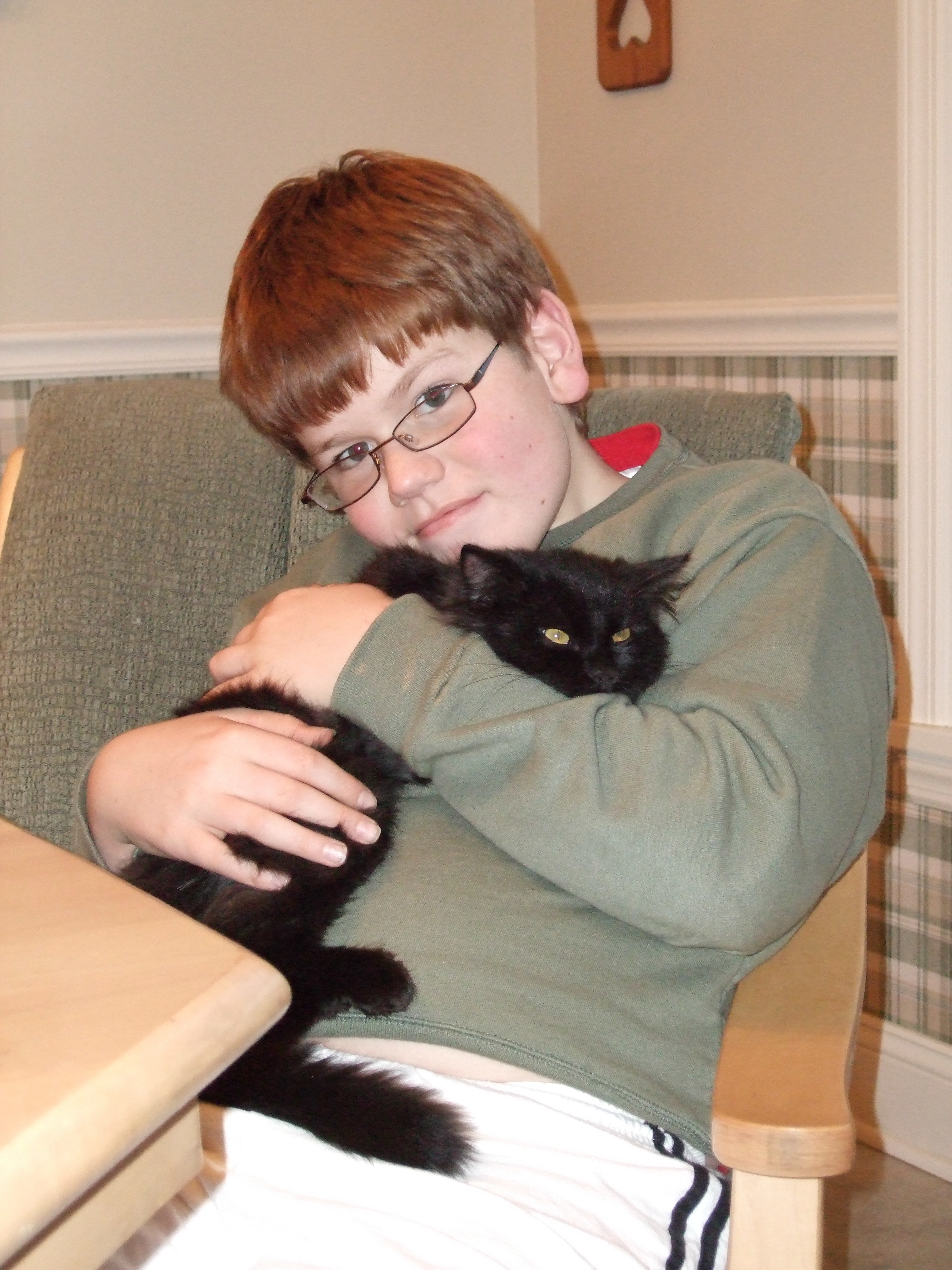 Cool!!